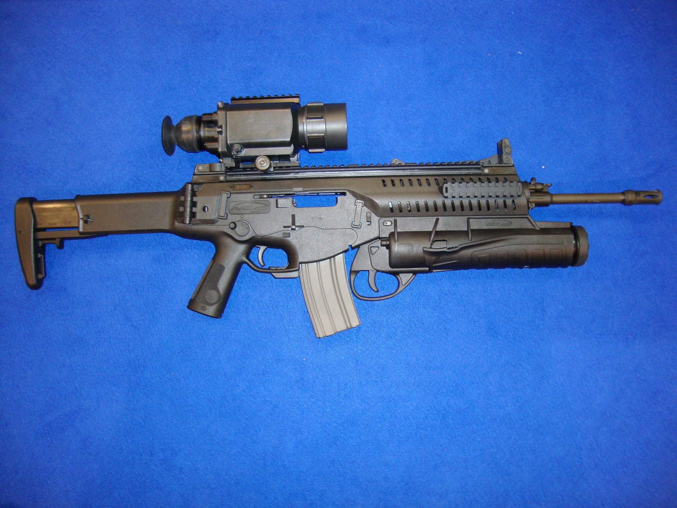 Beretta ARX 160 assault rifle with thermal sight and GLX 160 grenade launcher